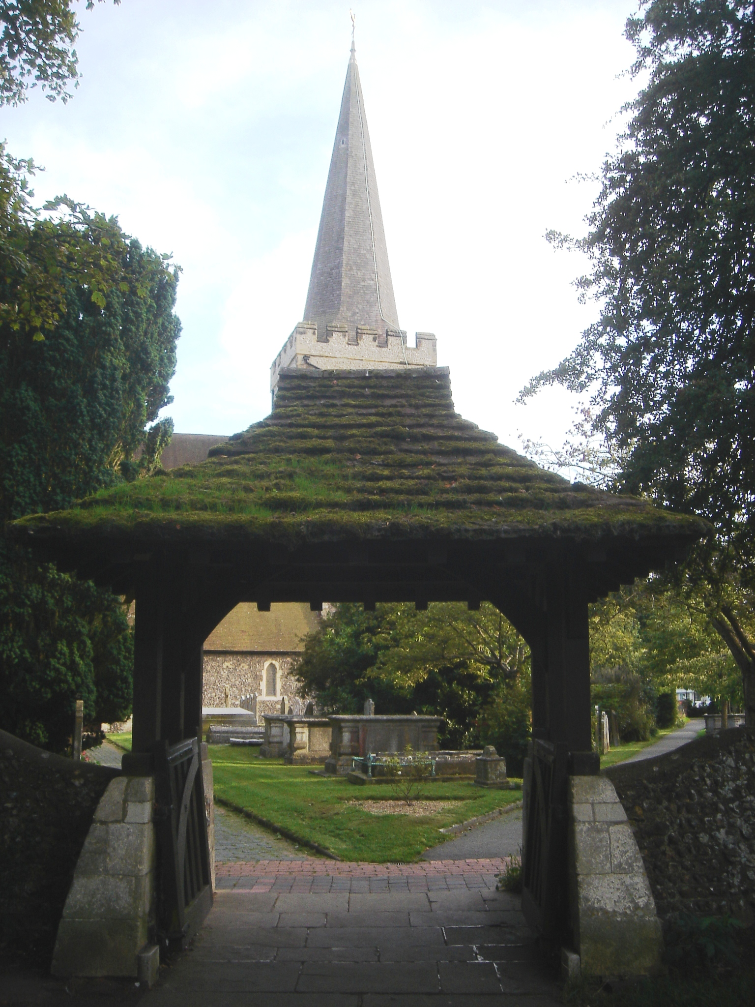 The early 20th-century lychgate at St Andrew's Church, West Tarring, Borough of Worthing, West Sussex, England. The 13th-century church's spire can be seen behind it.